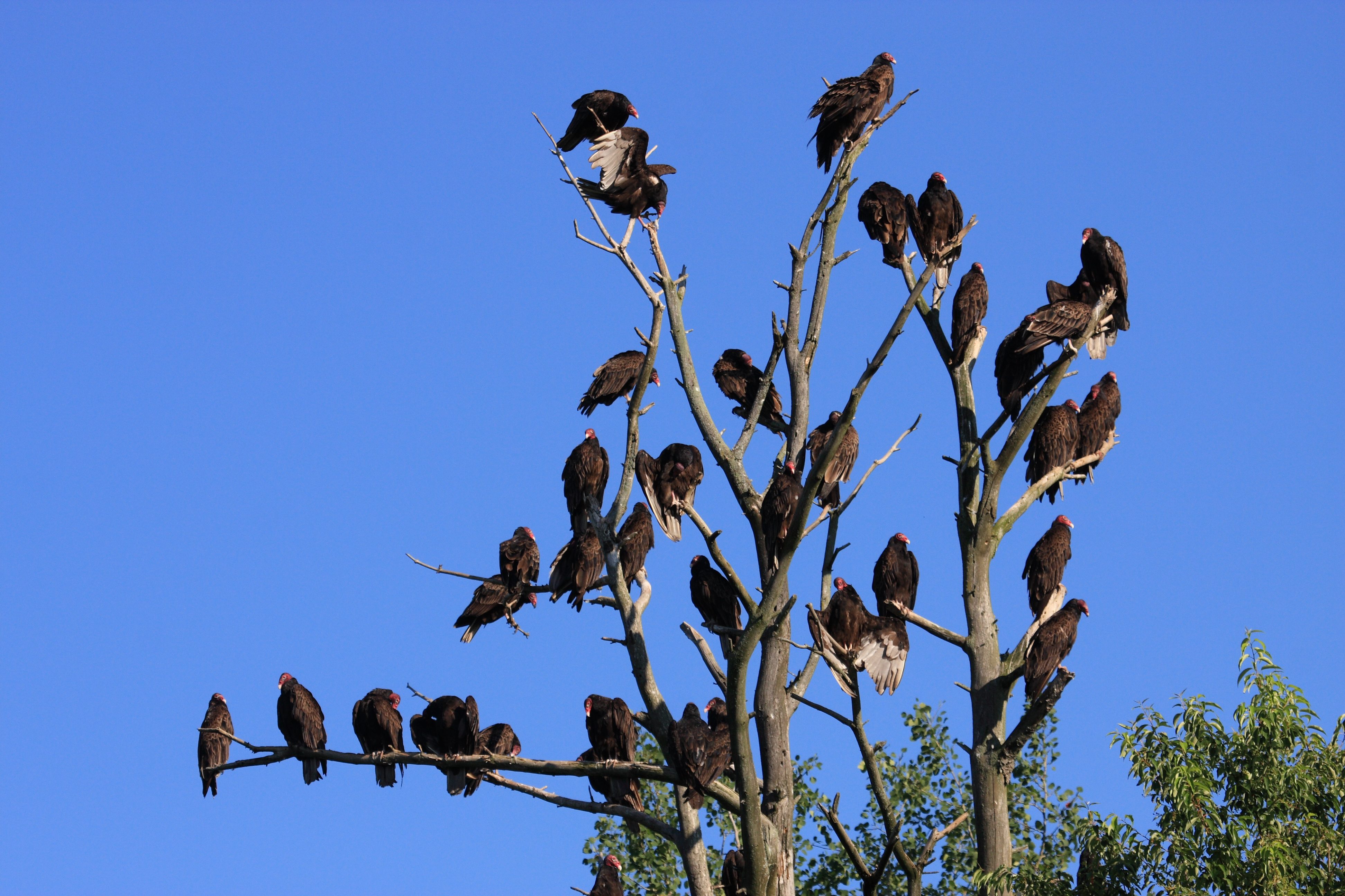 Turkey Vulture roost, Saint-André-Avellin, Quebec, Canada